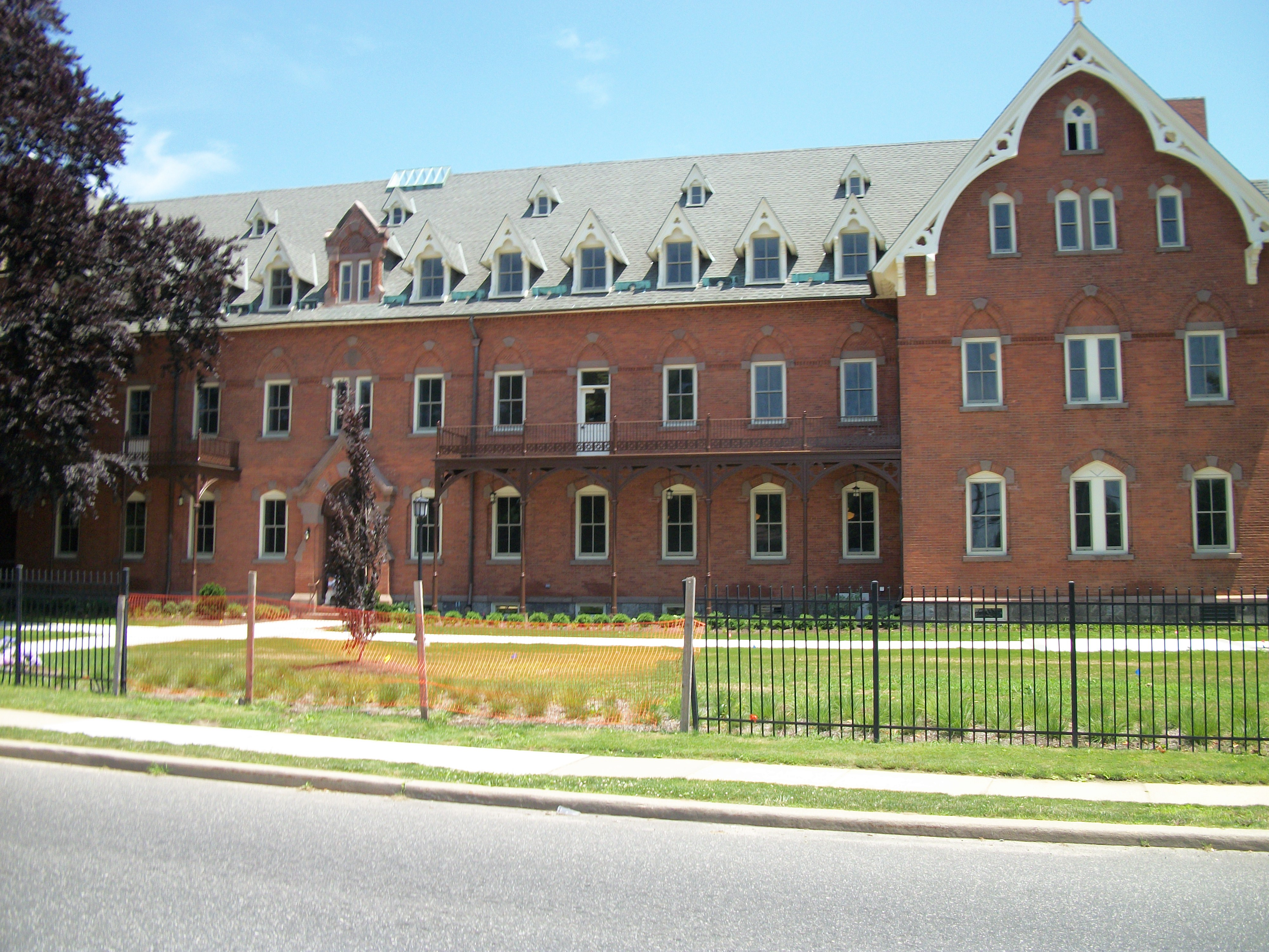 Part of the Sisters of St. Dominic Motherhouse Complex in North Amityville, New York.